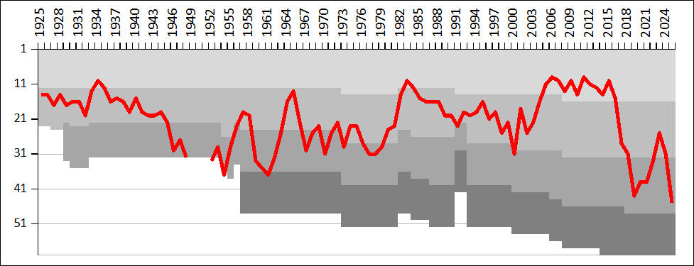 A chart showing the progress of Gefle IF through the Swedish football league system. Horizontal black lines represent league divisions.